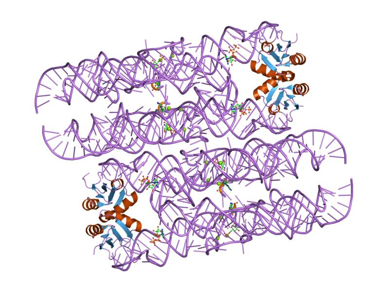 Cartoon representation of the molecular structure of protein registered with 2nz4 code.